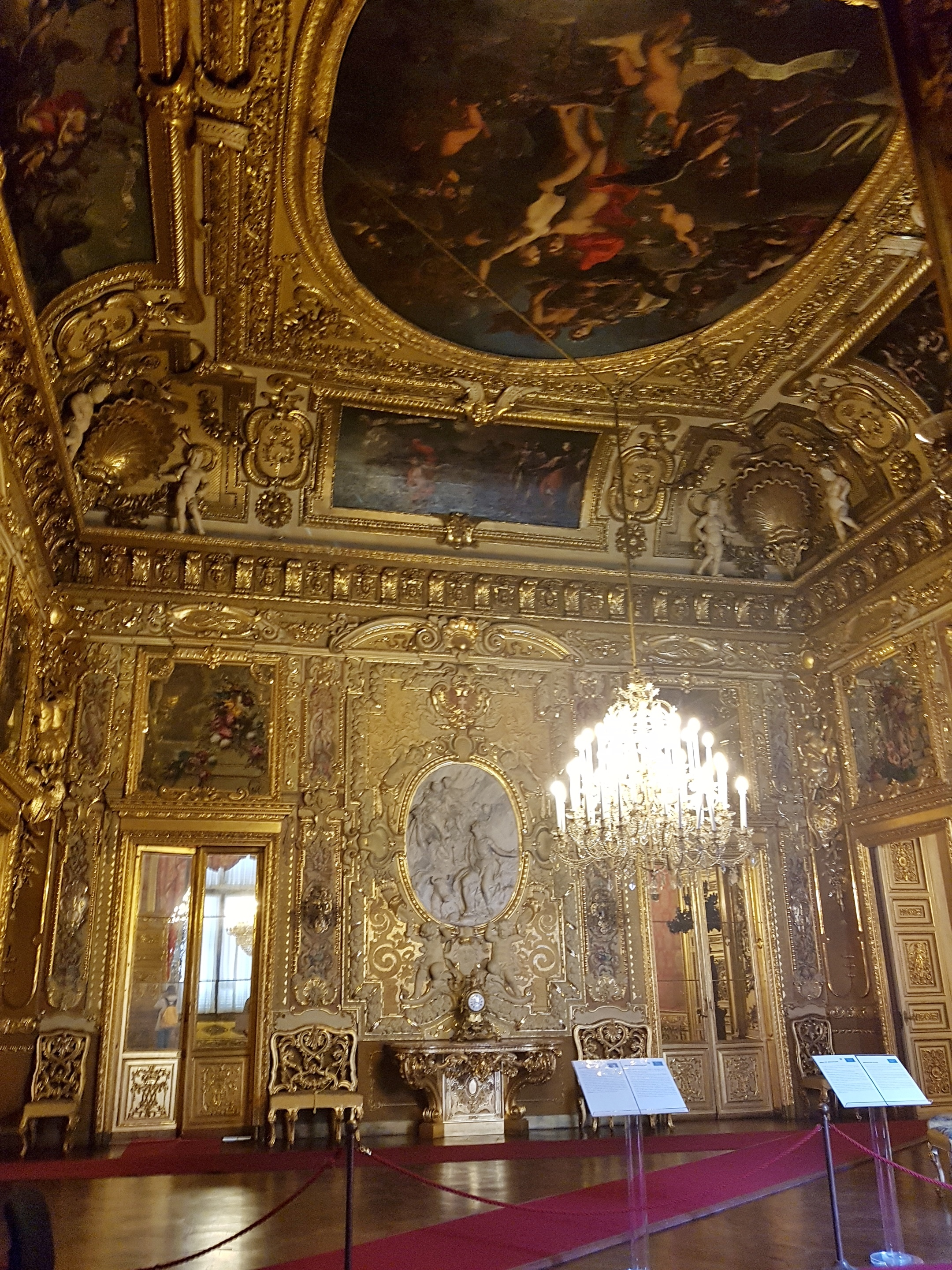 First floor: Hall of Medallions, Royal Palace of Turin, Northern Italy